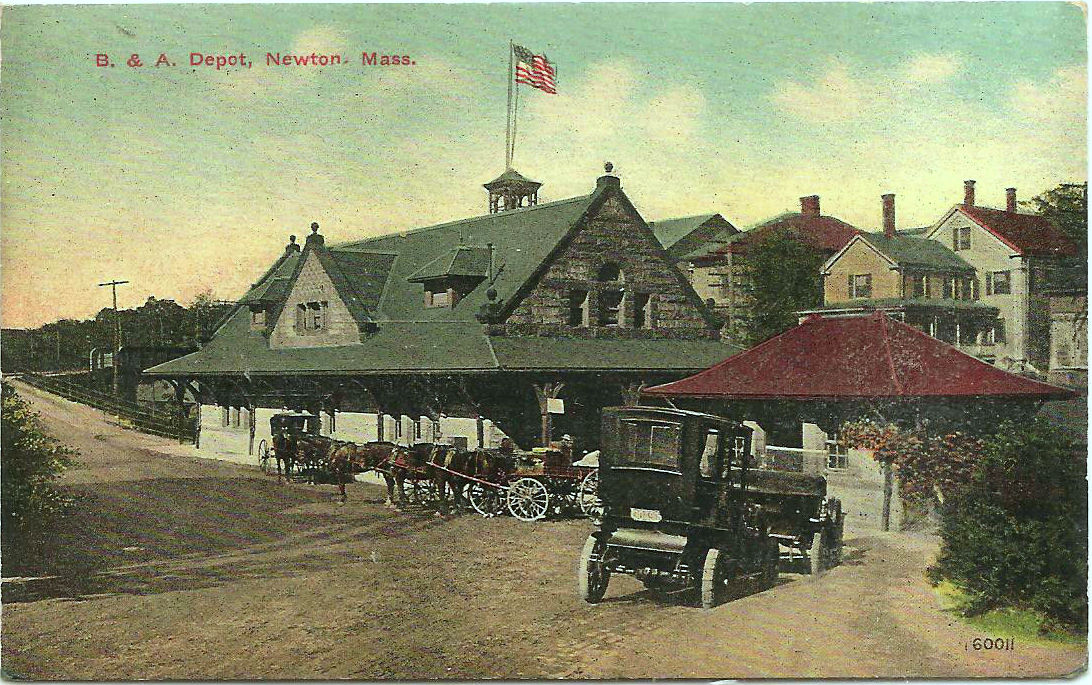 Newton (Corner) station on an early divided back postcard